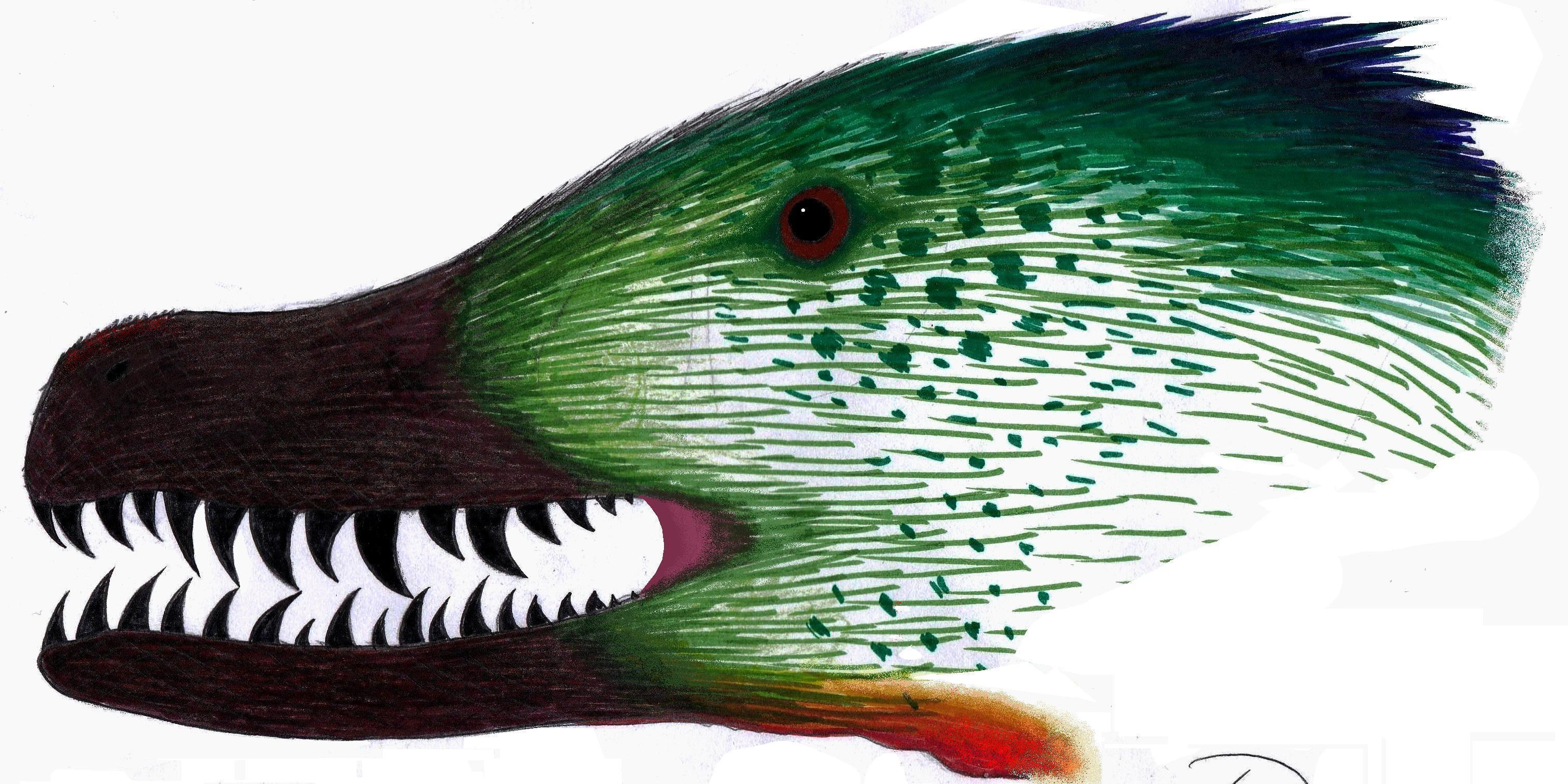 Acheroraptor restoration